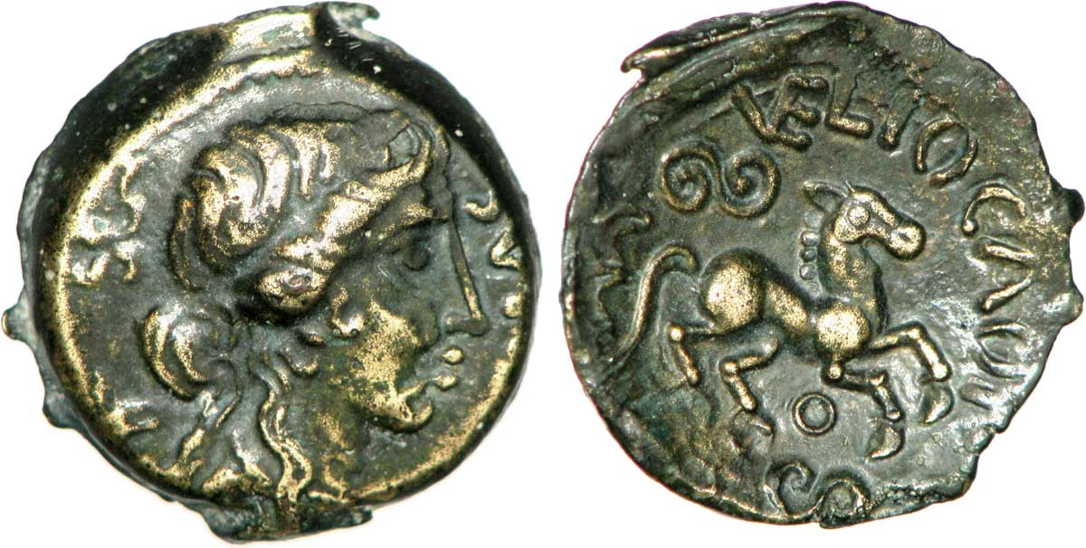 Bronze au cheval frappé par les Véliocasses Date : c. 50-40 AC. DesDescription revers : Cheval galopant à droite, une esse accostée d’un annelet au-dessus et au-dessous du cheval, une amphore renversée sous la patte arrière, double ligne de zigzag derrière la queue . Description avers : Tête diadémée à droite, les cheveux retombant sur la nuque, un collier de perles au cou, légende devant le visage ; fleur trifoliée derrière la nuque .